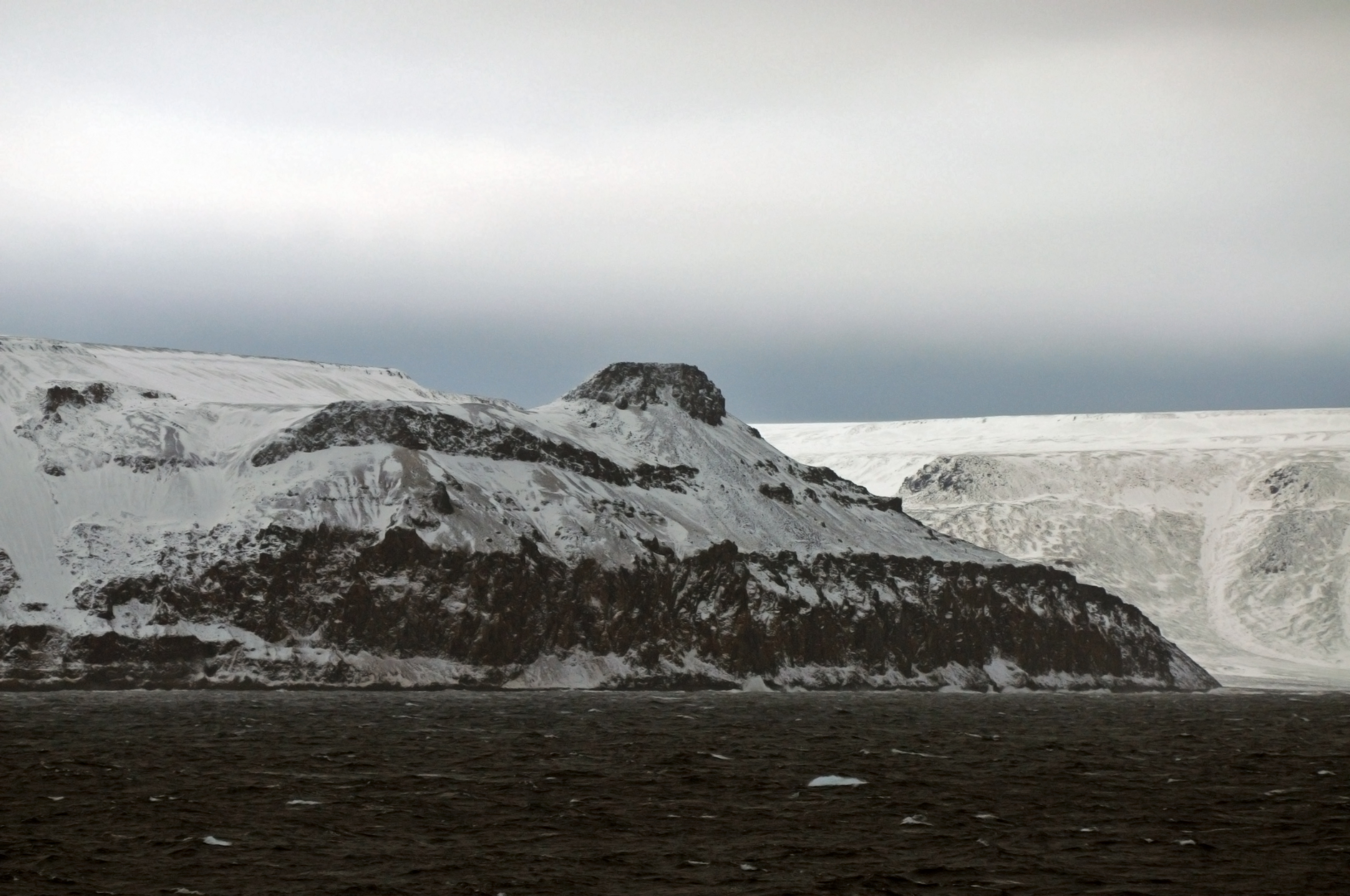 Bennett Island, part of the large Lena Delta resource reserve This image is related to the protected area of Russia number 1410054